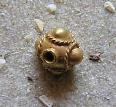 Sasanidian gold bead, made between 2nd and 4th Century, German private Collection